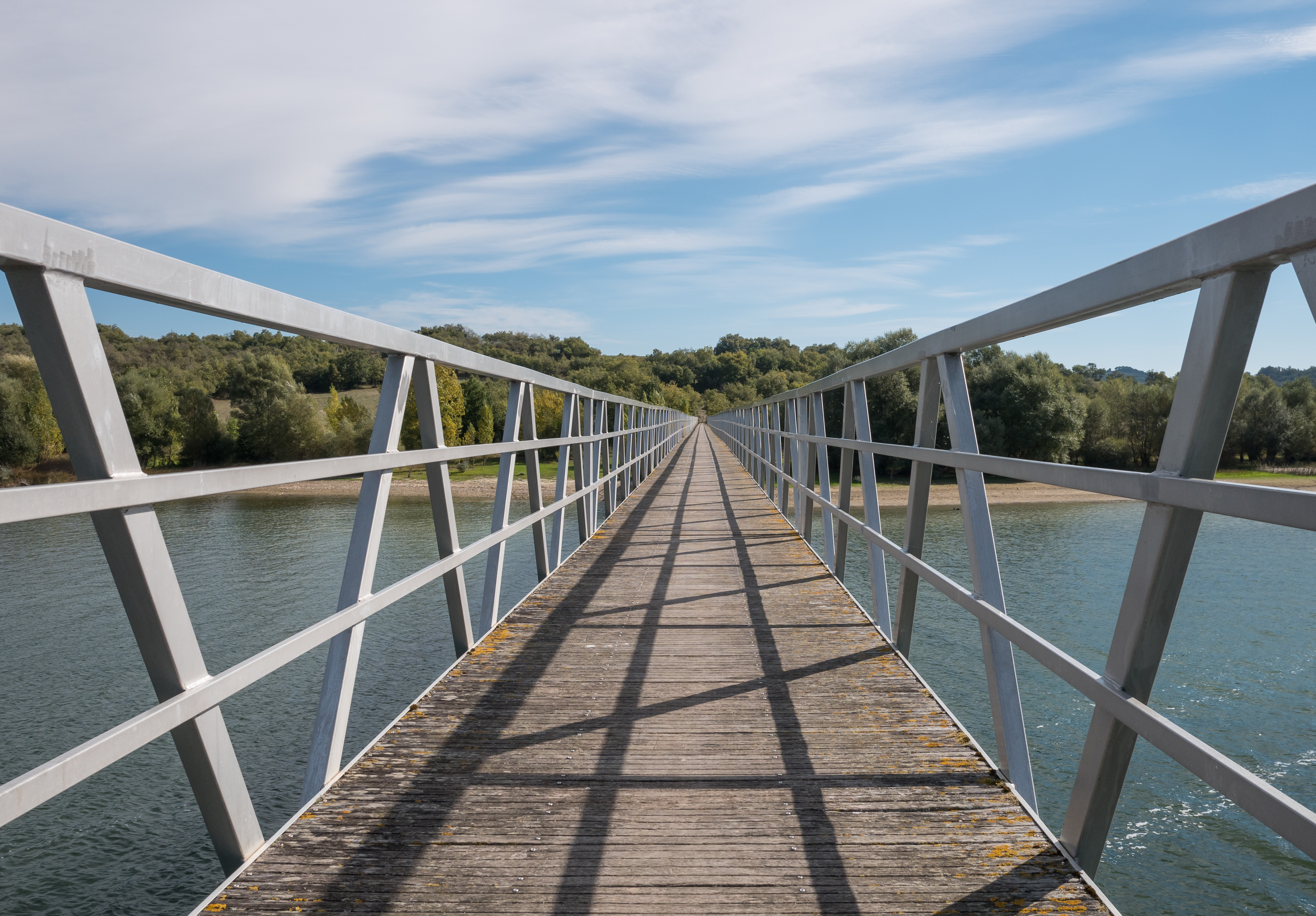 Bridge over the Ullíbarri-Gamboa reservoir between Garaio and Azua. Álava, Basque Country, Spain